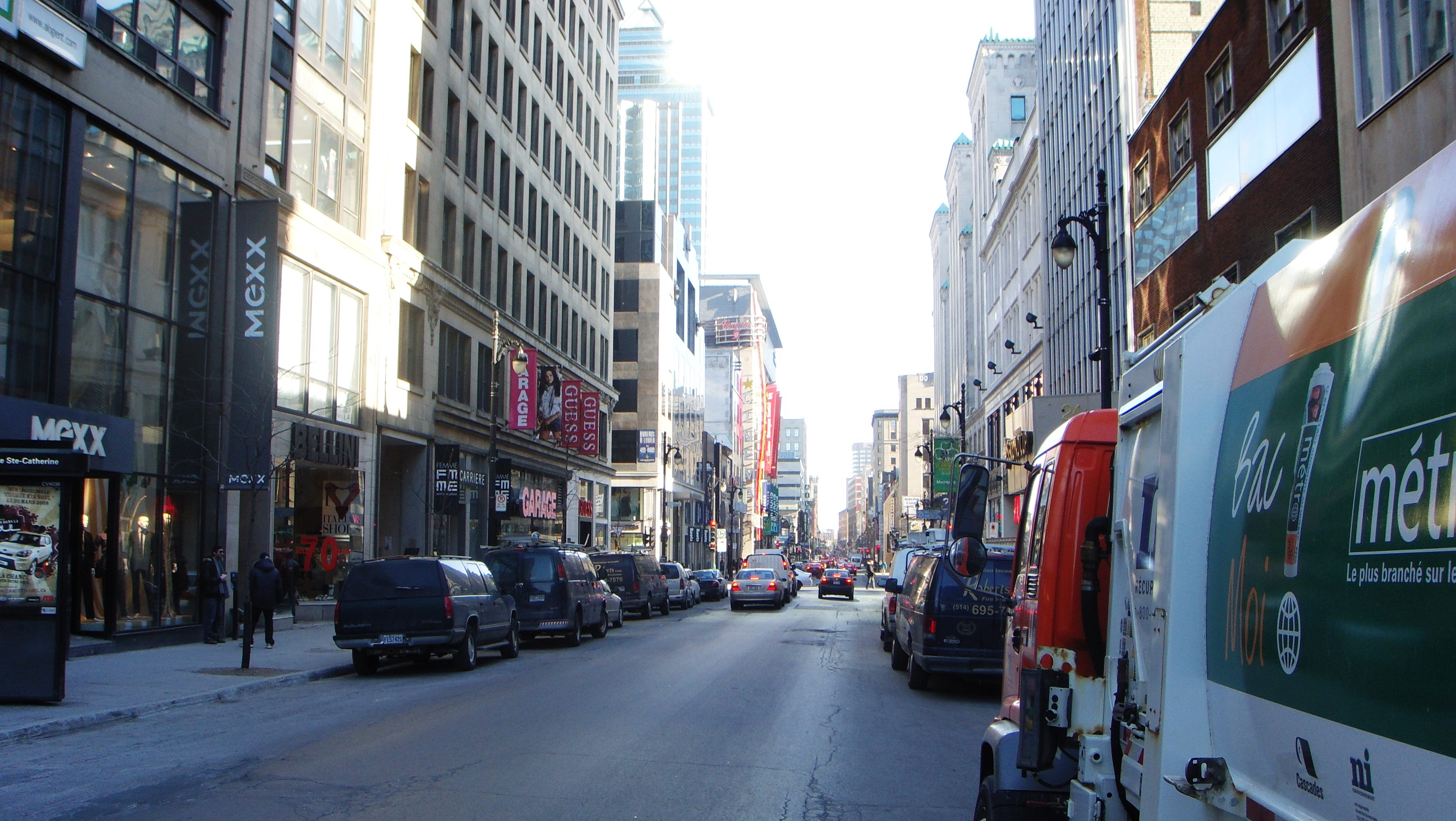 Saint Catherine St. Montreal, Quebec, Canada